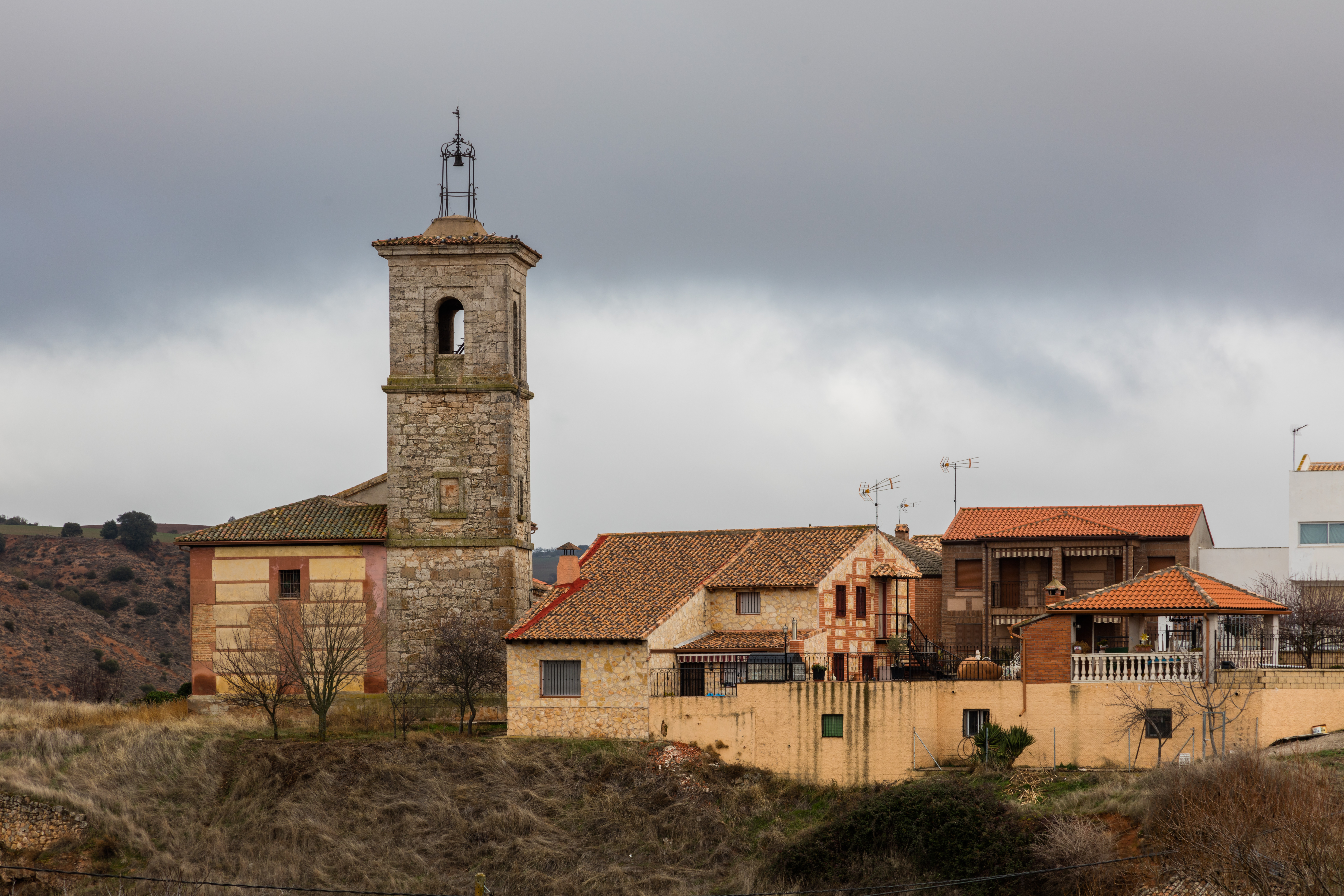 Copernal, Guadalajara, Spain